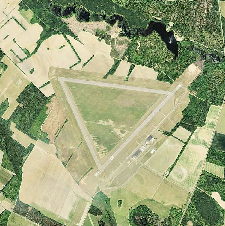 USGS digital orthophoto of Darlington County Jetport in South Carolina